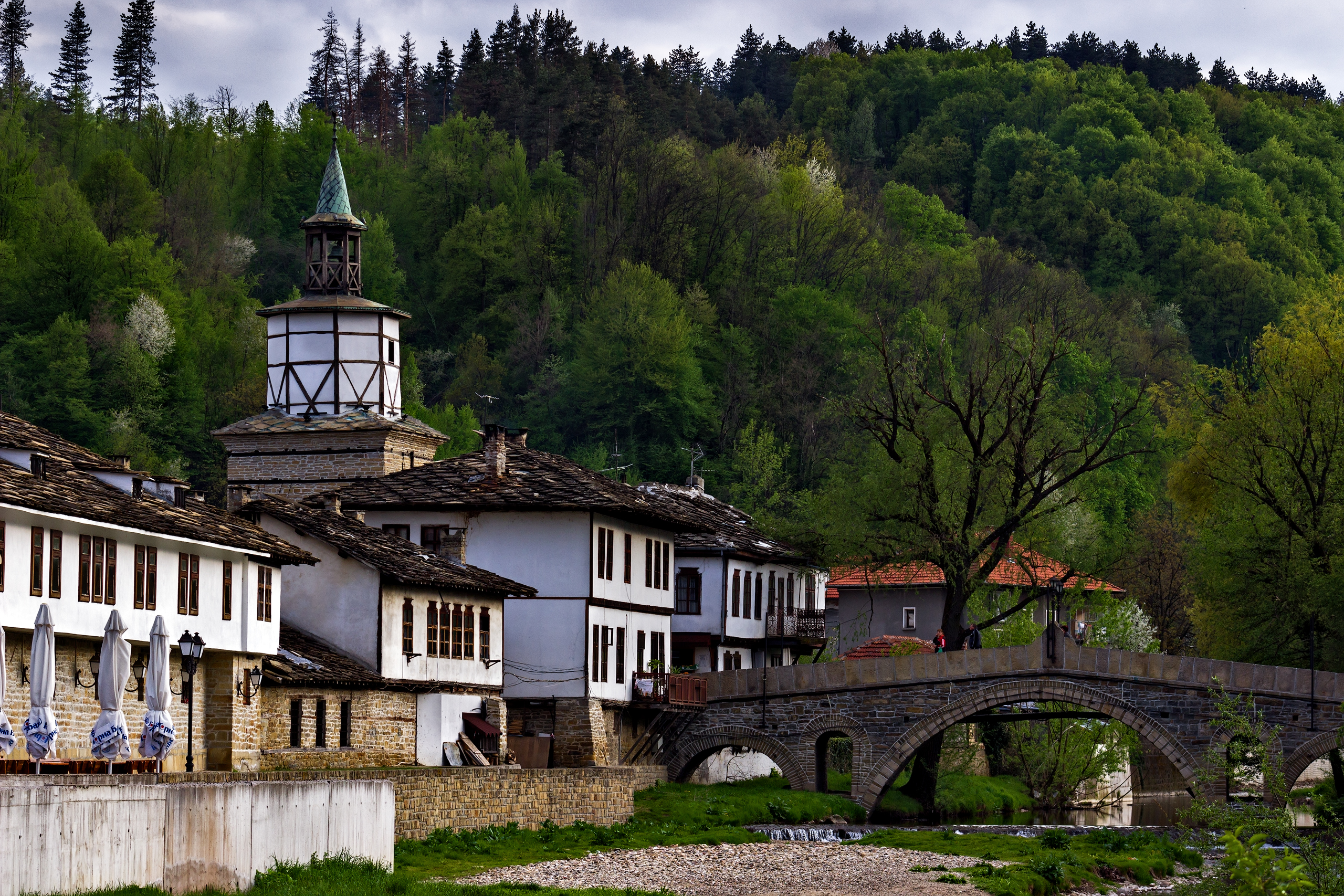 Clock tower in Triavna, Bulgaria